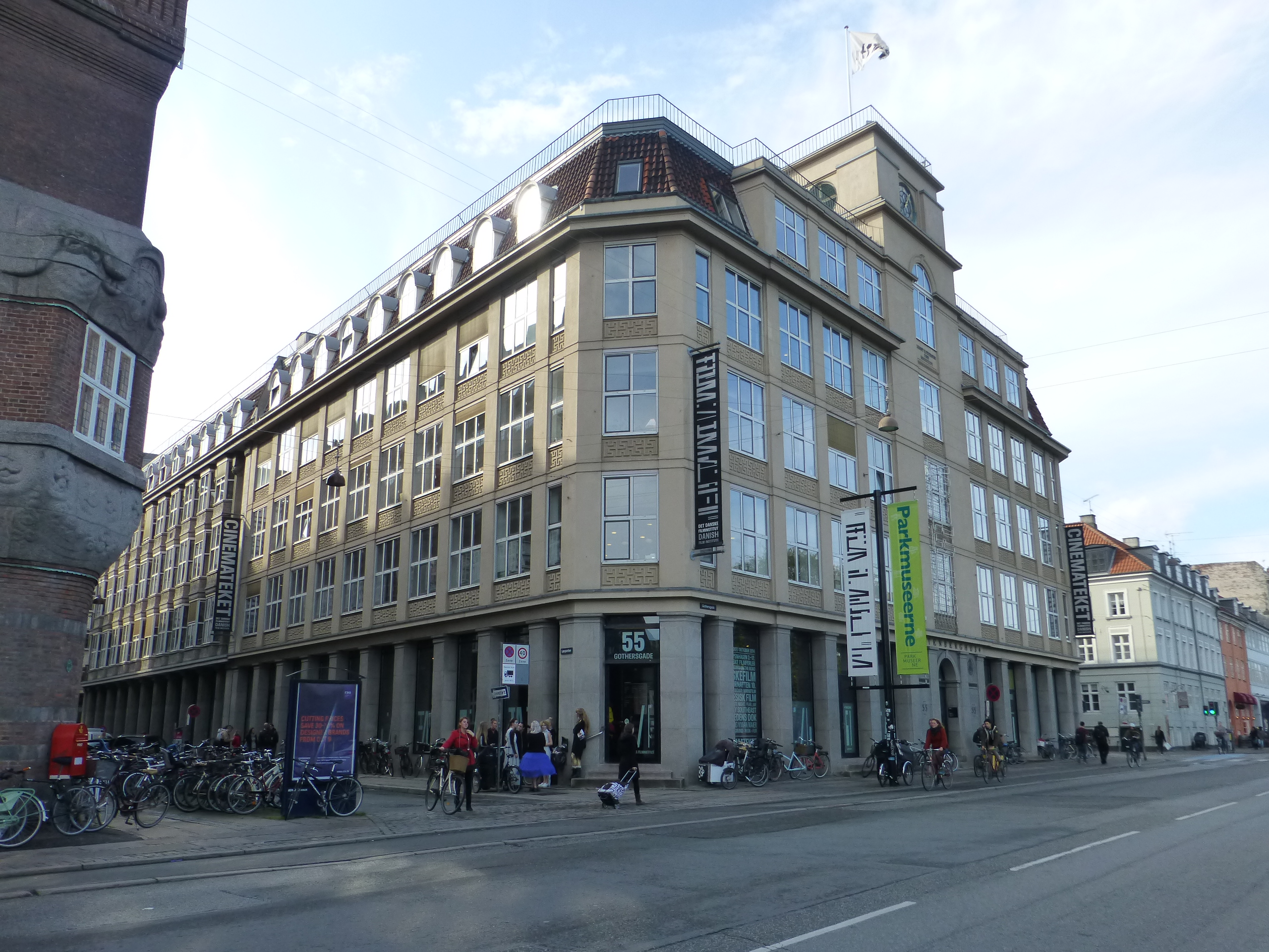 Cinemateket, a public institution for movies, in Gothersgade in Indre By in Copenhagen.